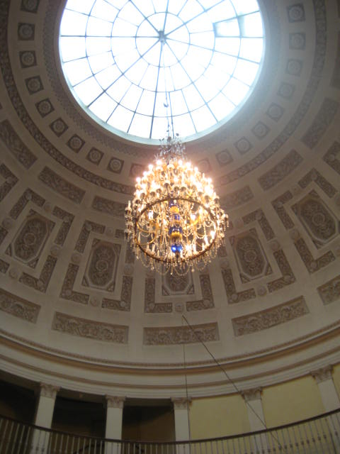 A Winter Palace interior in St Petersburg. The Winter Palace now houses the Hermitage Museum. The Palace was originally built and decorated in 1730 and was rebuilt after a major fire while under siege by Napoleon's troops.